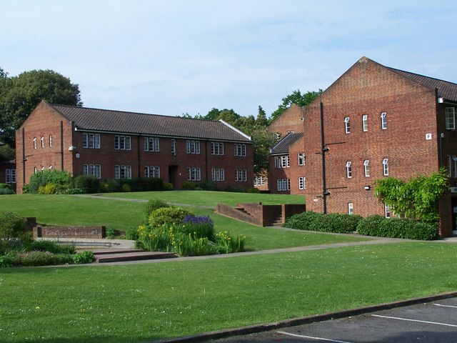 University of Southampton Halls of Residence, Glen Eyre